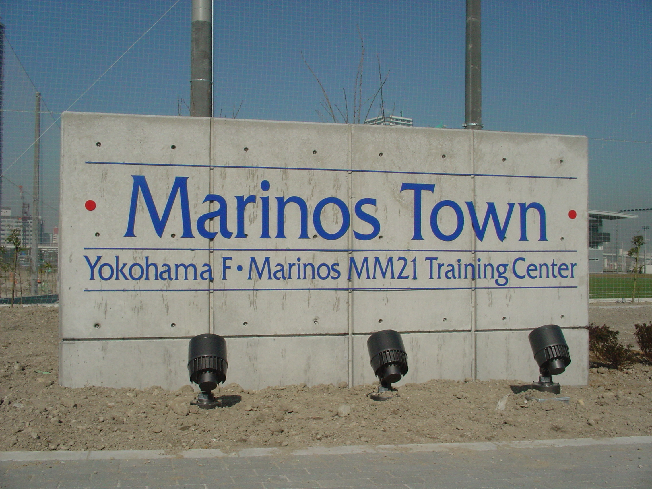 Marinos Town